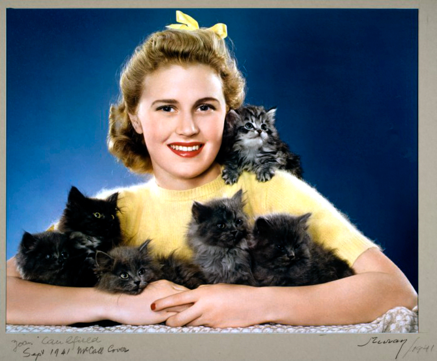 Accession Number: 1971:0050:0018 Maker: Nickolas Muray (American 1892-1965) Title: "McCall Cover, Joan Caulfield" Date: Sep-1941 Medium: "color print, assembly (Carbro) process" Dimensions: Dimensions Unknown George Eastman House Collection General – information about the George Eastman House Photography Collection is available at For information on obtaining reproductions go to